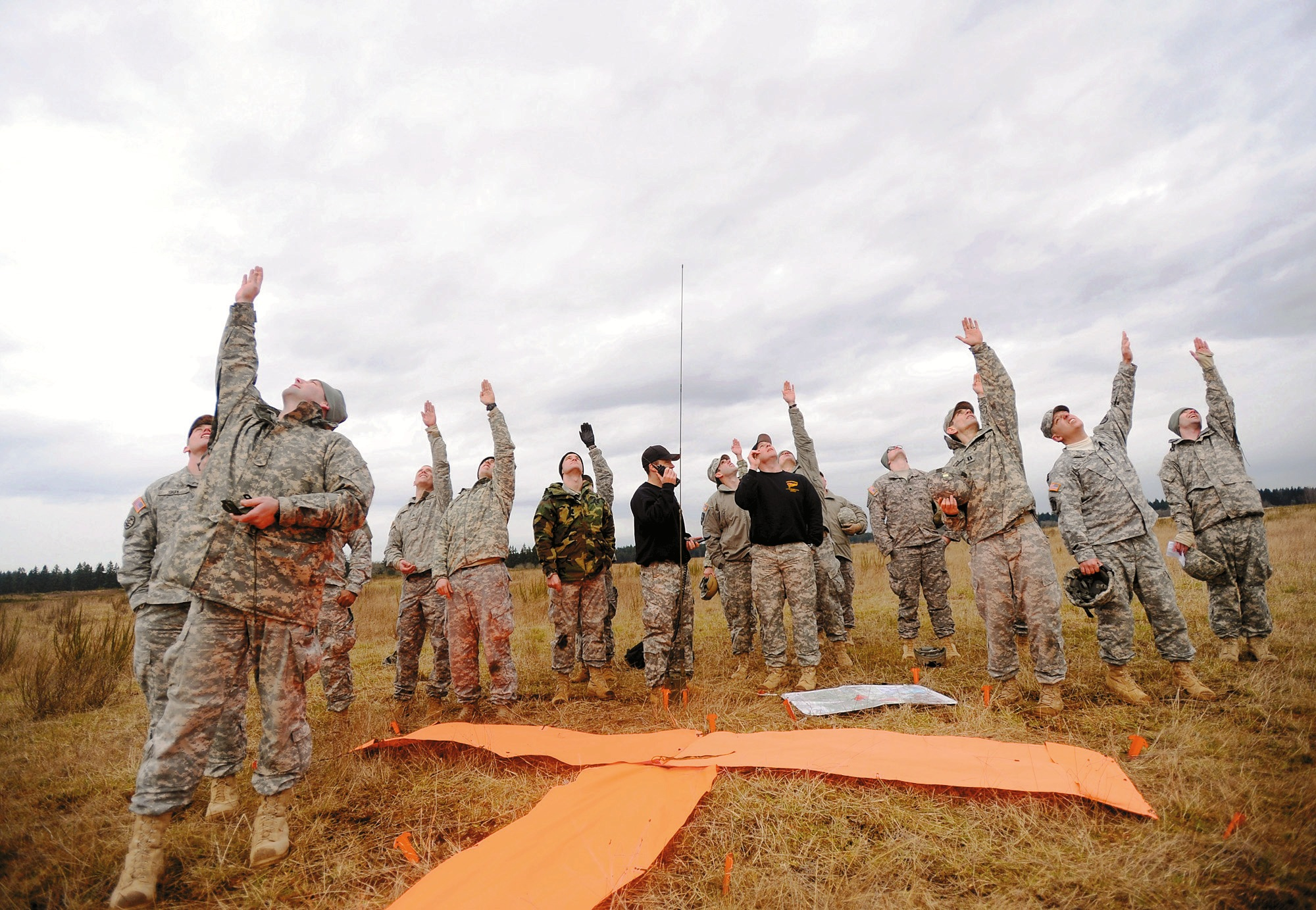 U.S. Army Pathfinder students raise their arms skyward to line up the flight path of an incoming CH-47 near Rogers Drop Zone at Fort Benning, Georgia.